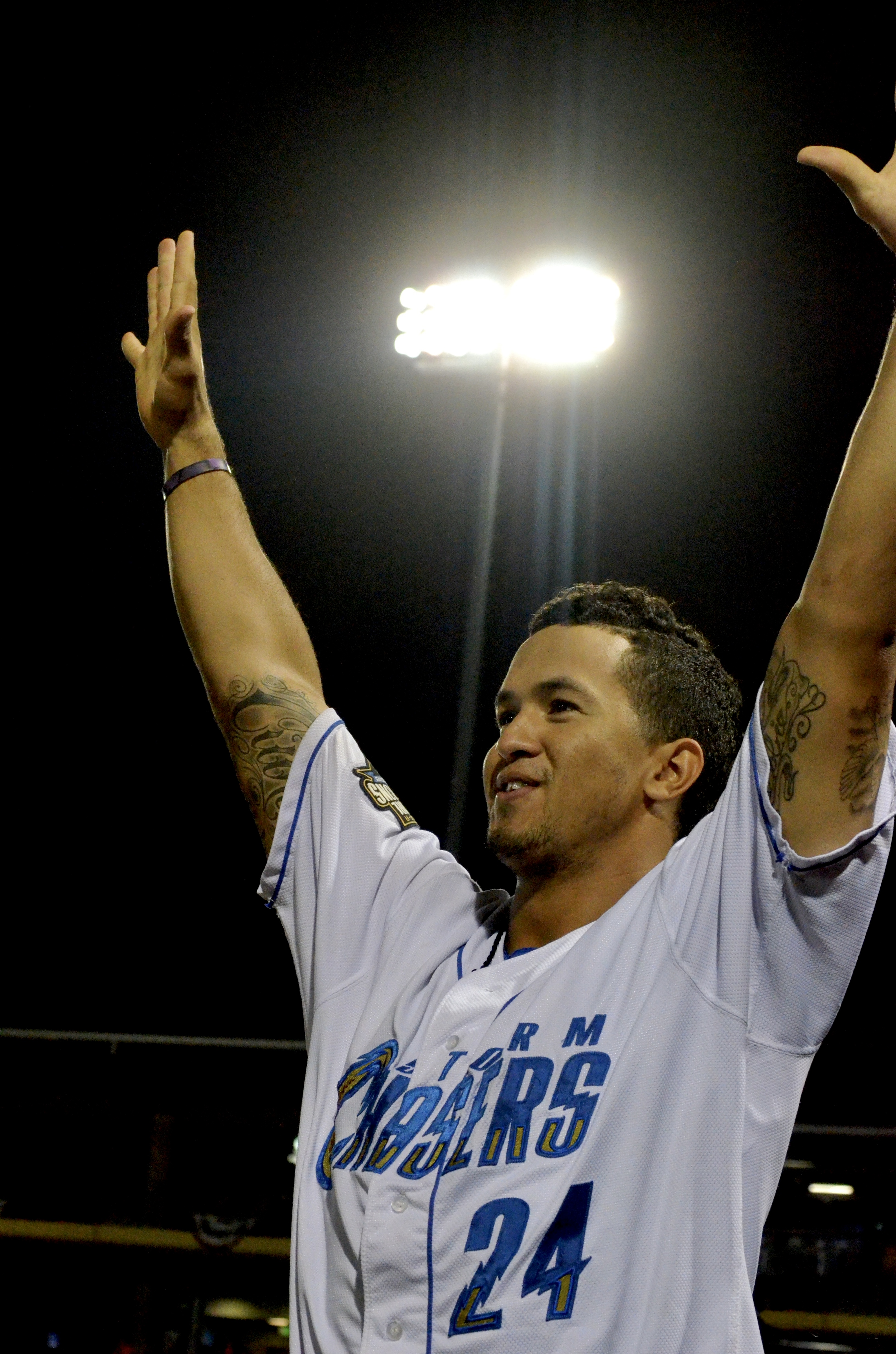 Cheslor Cuthbert reacting to Whit Merrifield hitting a homer